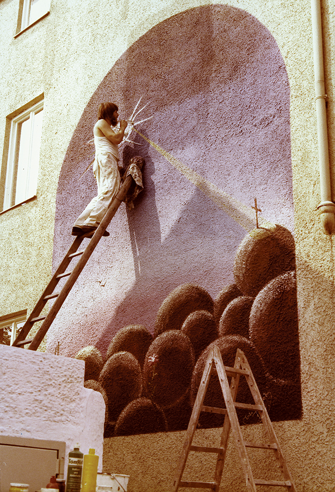 Lubo Kristek creating Watching the Earth in Augsburg